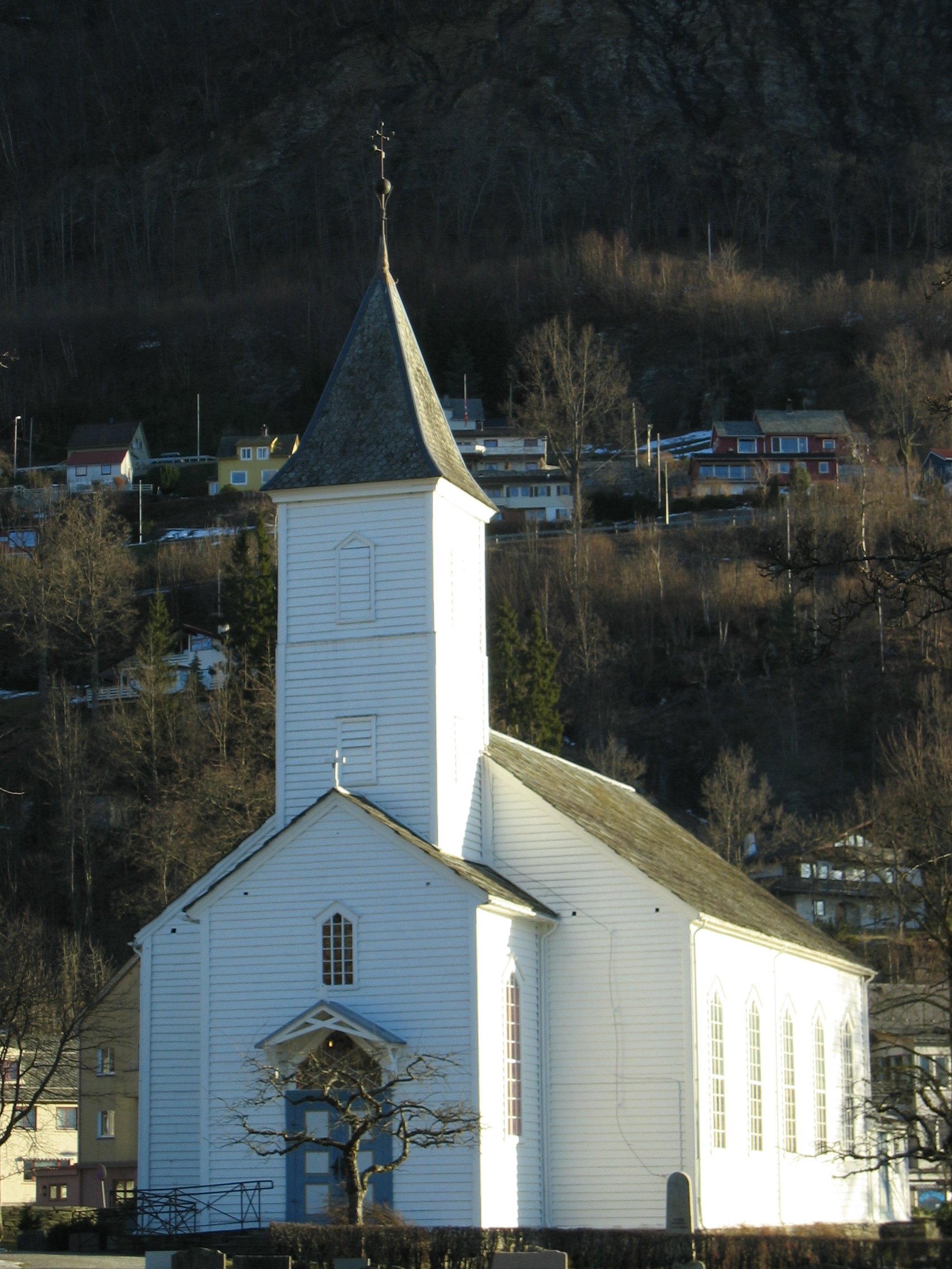 Øystese Church, Hordaland, Norway.